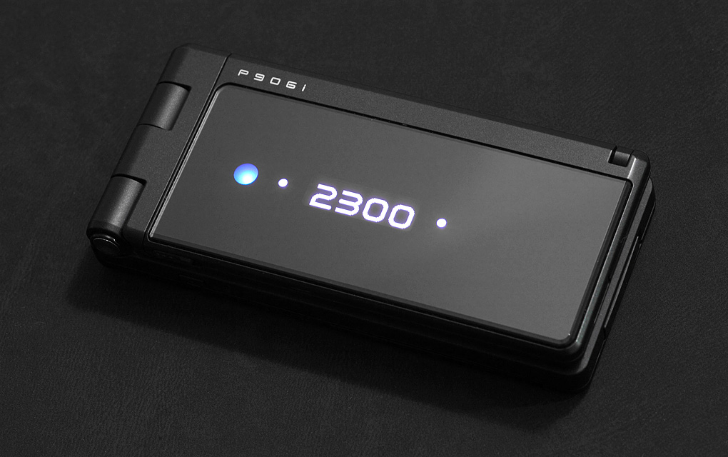 NTT Docomo FOMA P906i